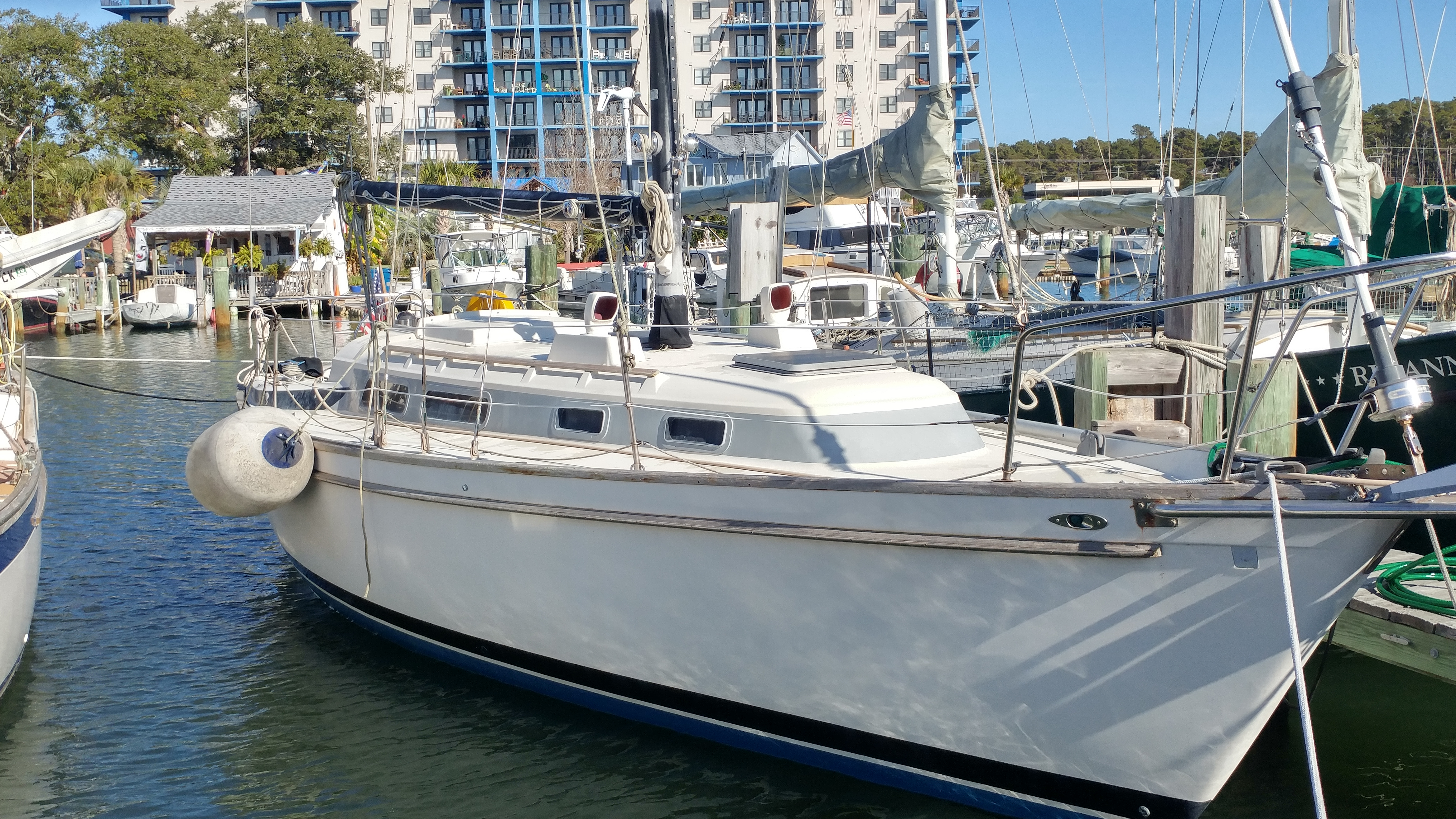 Pearson 323 Sea Fever